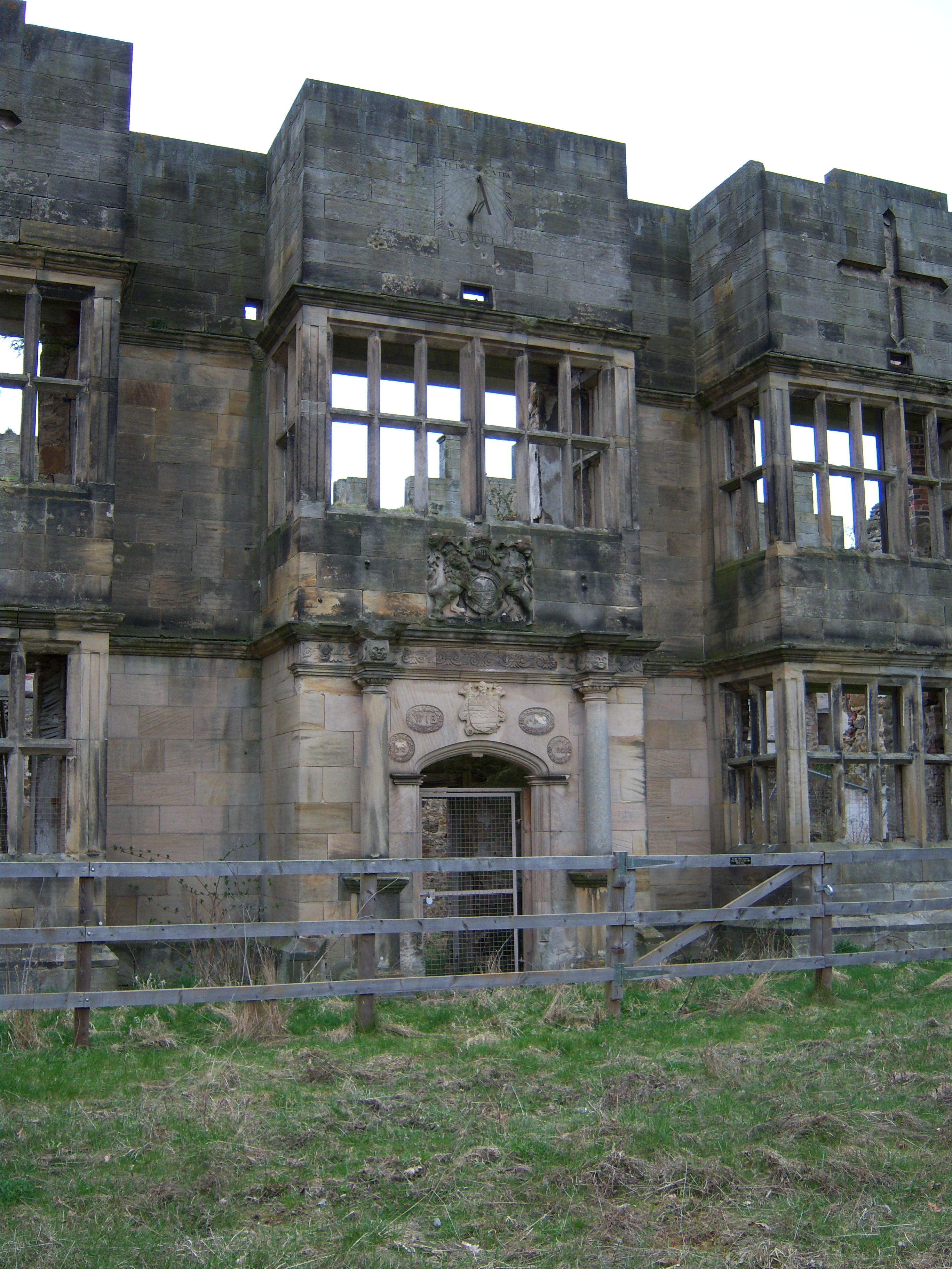 The shell of the Main house on the Gibside National Trust estate near Rowlands Gill in north east England.